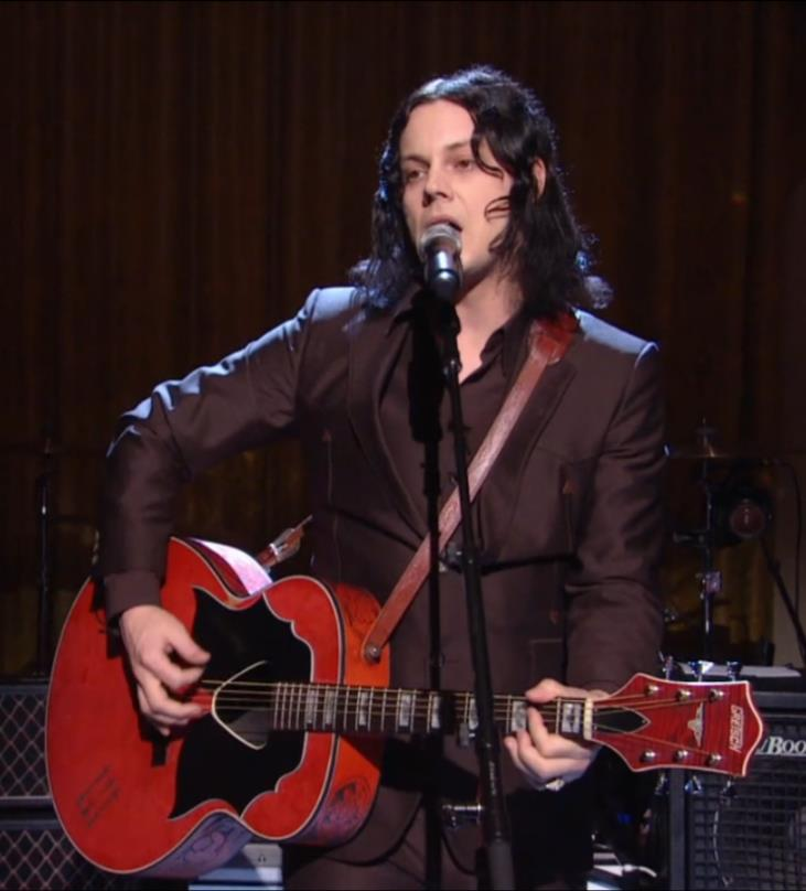 Jack White performs "Mother Nature's Son" in the East Room as part of a concert honoring Paul McCartney with the Library of Congress Gershwin Prize for Popular Song, Jun. 2, 2010.